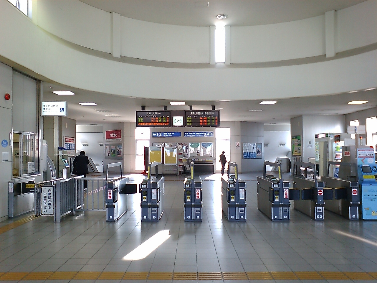 This photograph is a ticket gate of JR Minami-Kusatsu Station. この写真はJR南草津駅の改札口です。